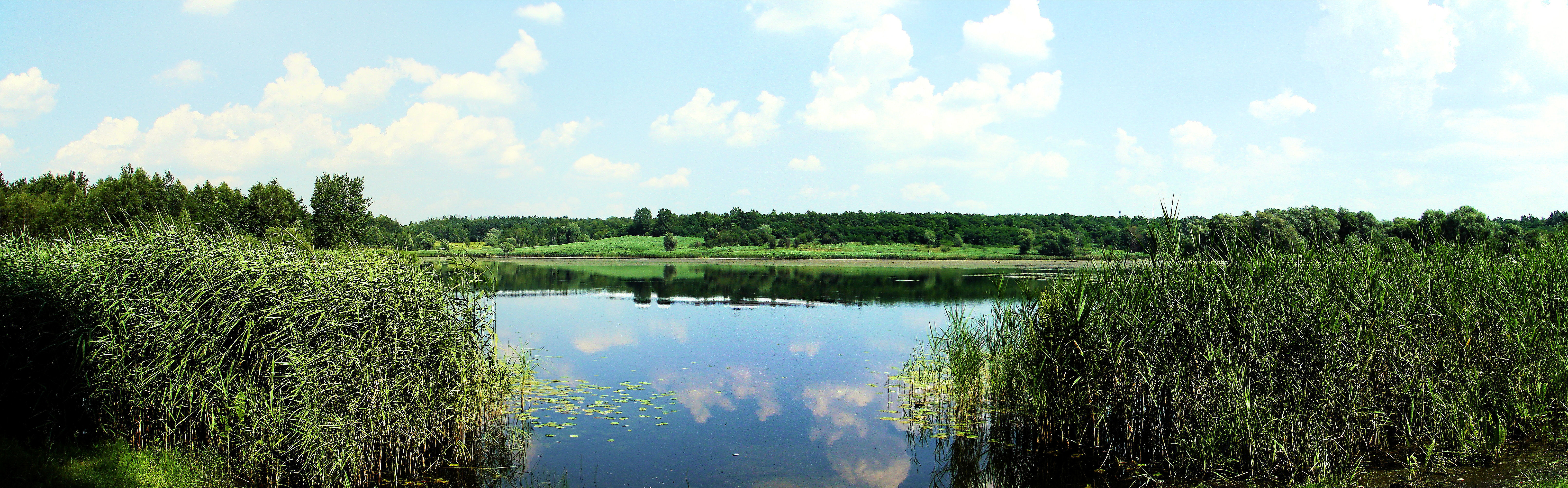 Nature reserve "Pogoria II" in Dąbrowa Górnicza, Poland.